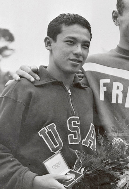 LF57 1952 Wire Photo JEAN BOITEUX FORD KONNO PER OLAF OSTRAND Olympic Medals